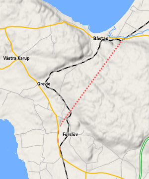 Map of the area around Hallandsåstunneln in Sweden. The dotted red line is the tunnel and the dashed red line is the connecting railway. This map may be incomplete, and may contain errors. Don't rely solely on it for navigation.